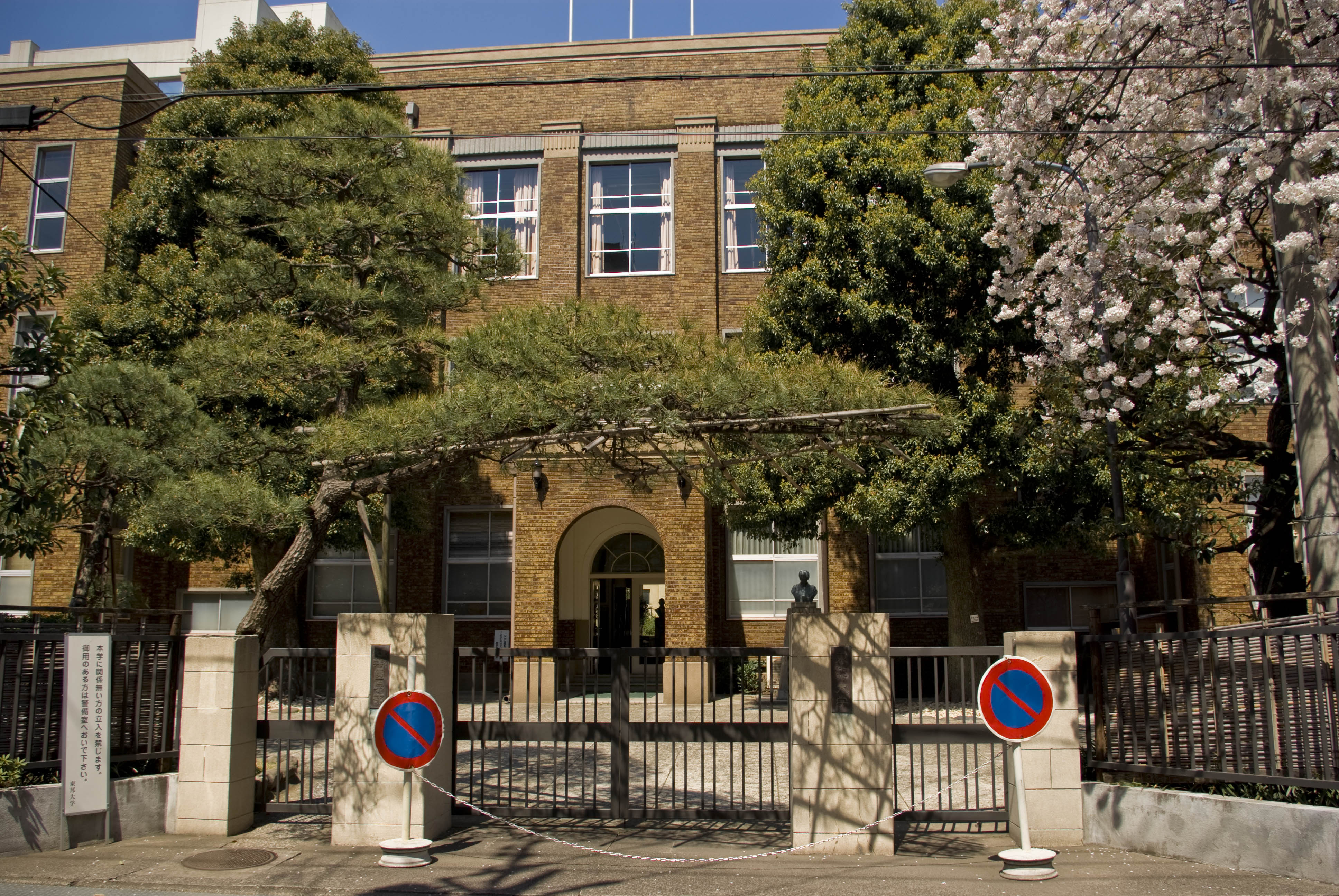 Main building of Toho University in Ota, Tokyo, Japan